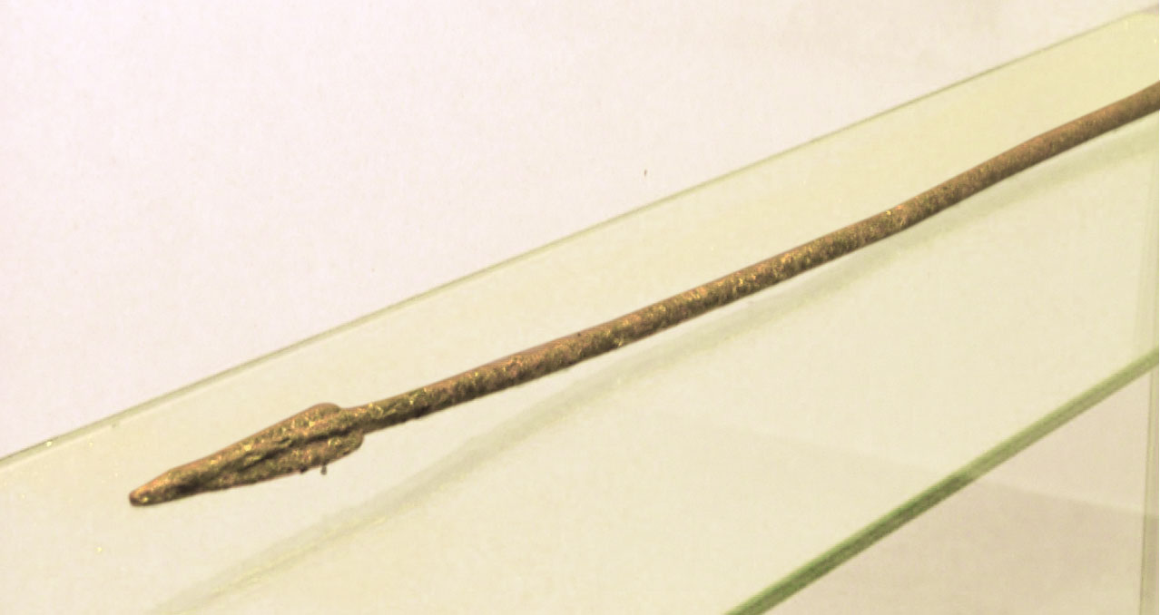 Iberian Soliferrum in the Prehistoric Museum of Valencia, Spain. Found in the Bastida de les Alcuses, an iberian settlement in the Valencia province, Spain.